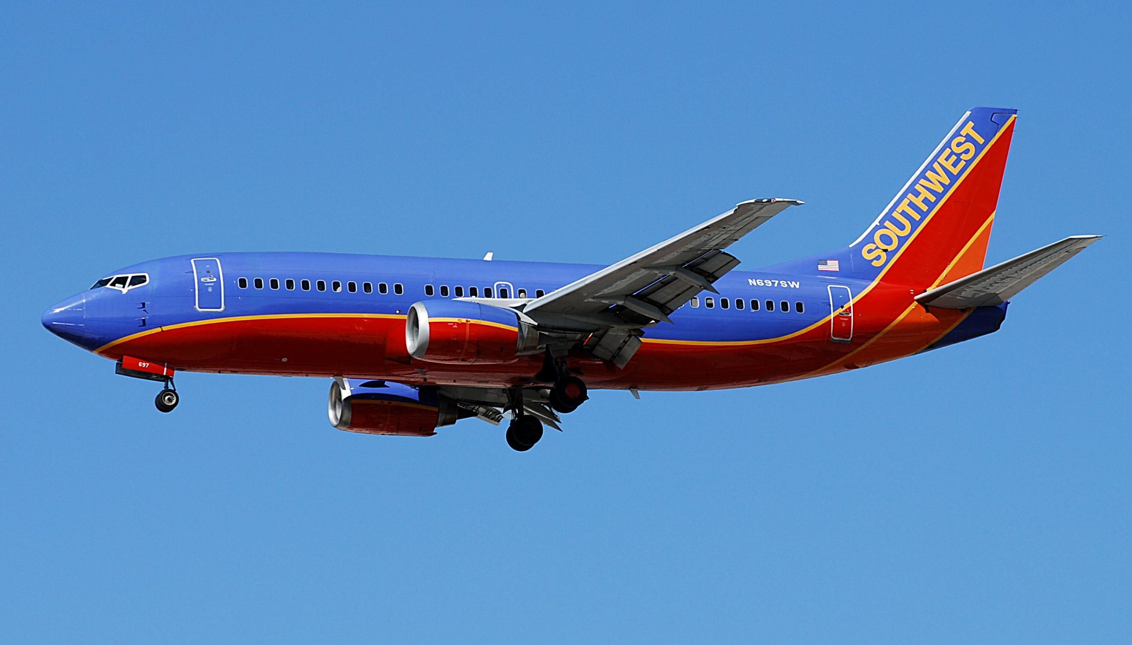 Las Vegas - McCarran International (LAS / KLAS) USA - Nevada, 9-28-2010 Photo: TDelCoro